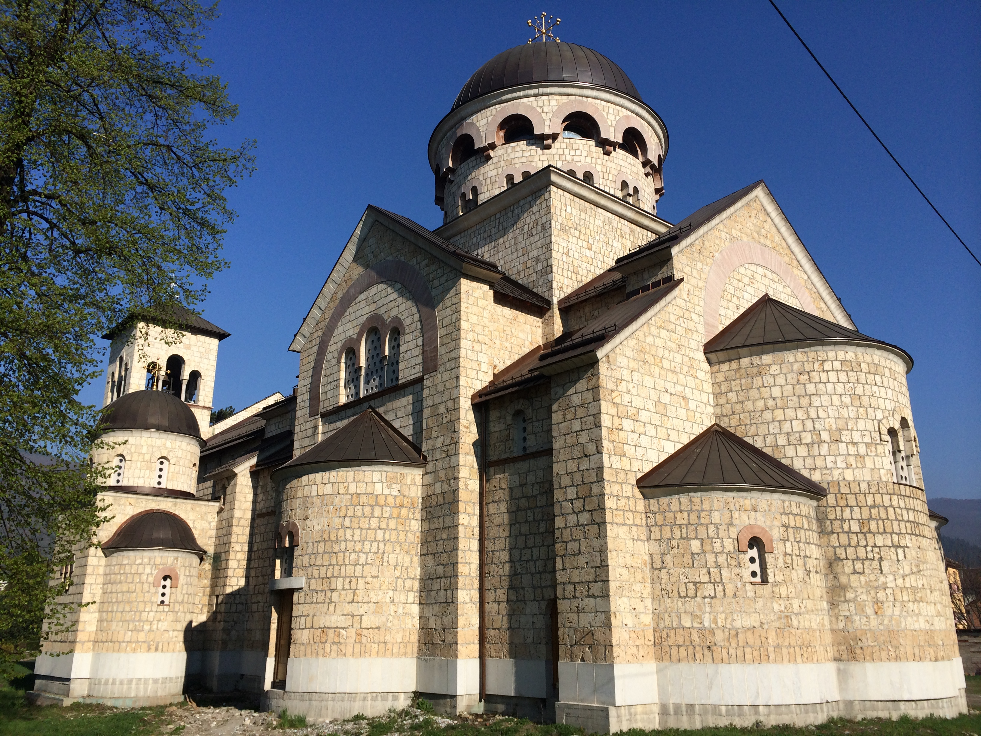 Cathedral of Sct Sava in the city of Foča, Republica Srpska - eastern Bosnia and Hercegovina.